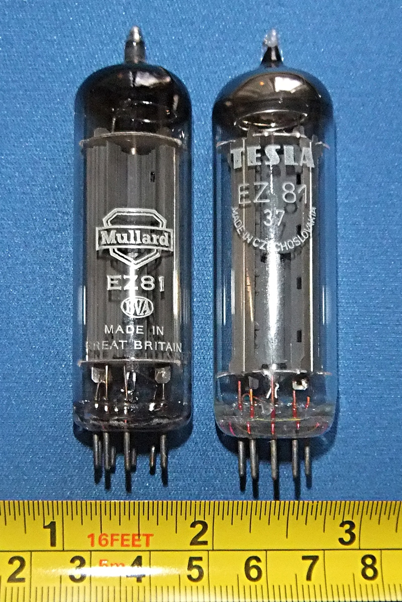 Double rectifier diodes EZ81